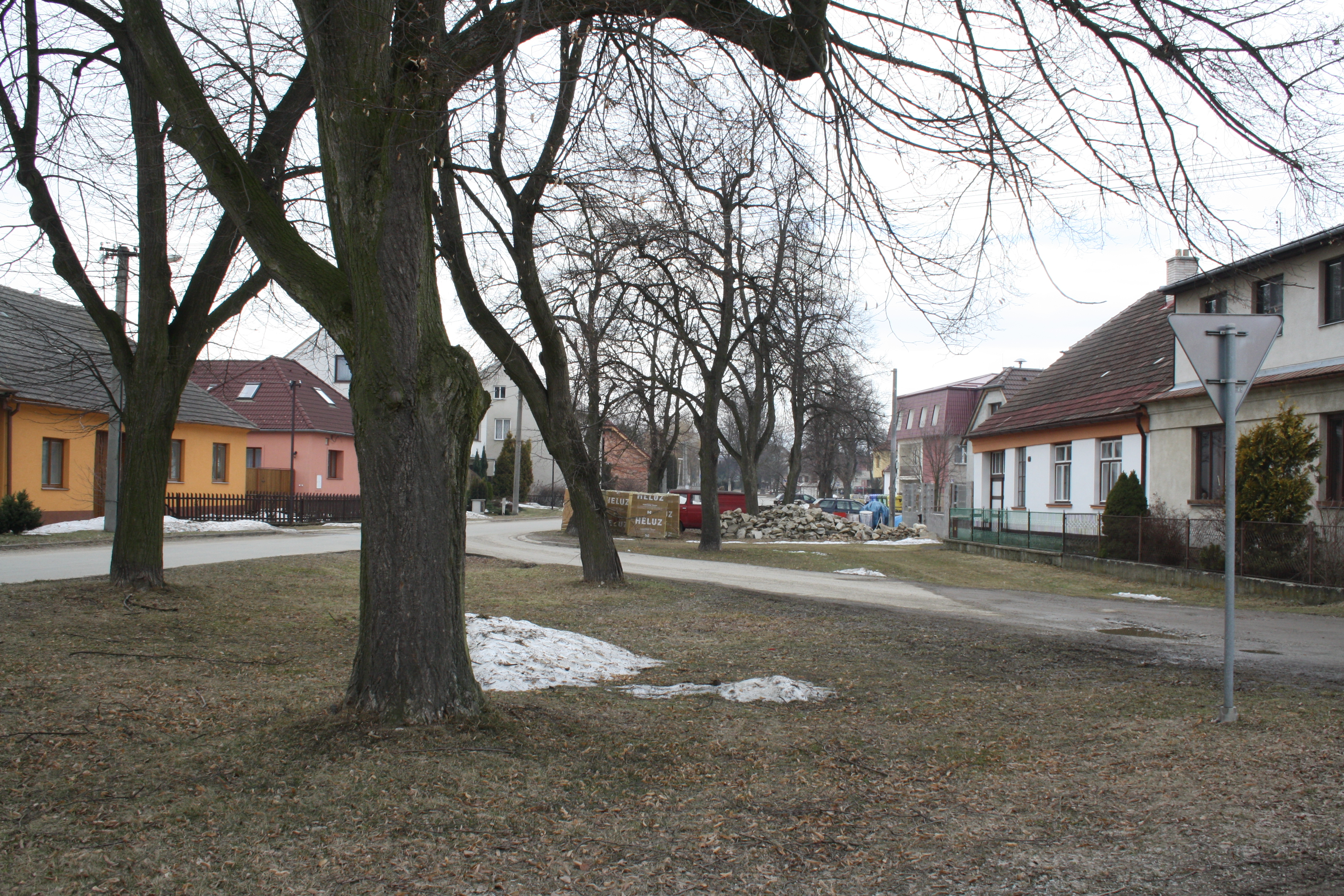 Center of Čáslavice.